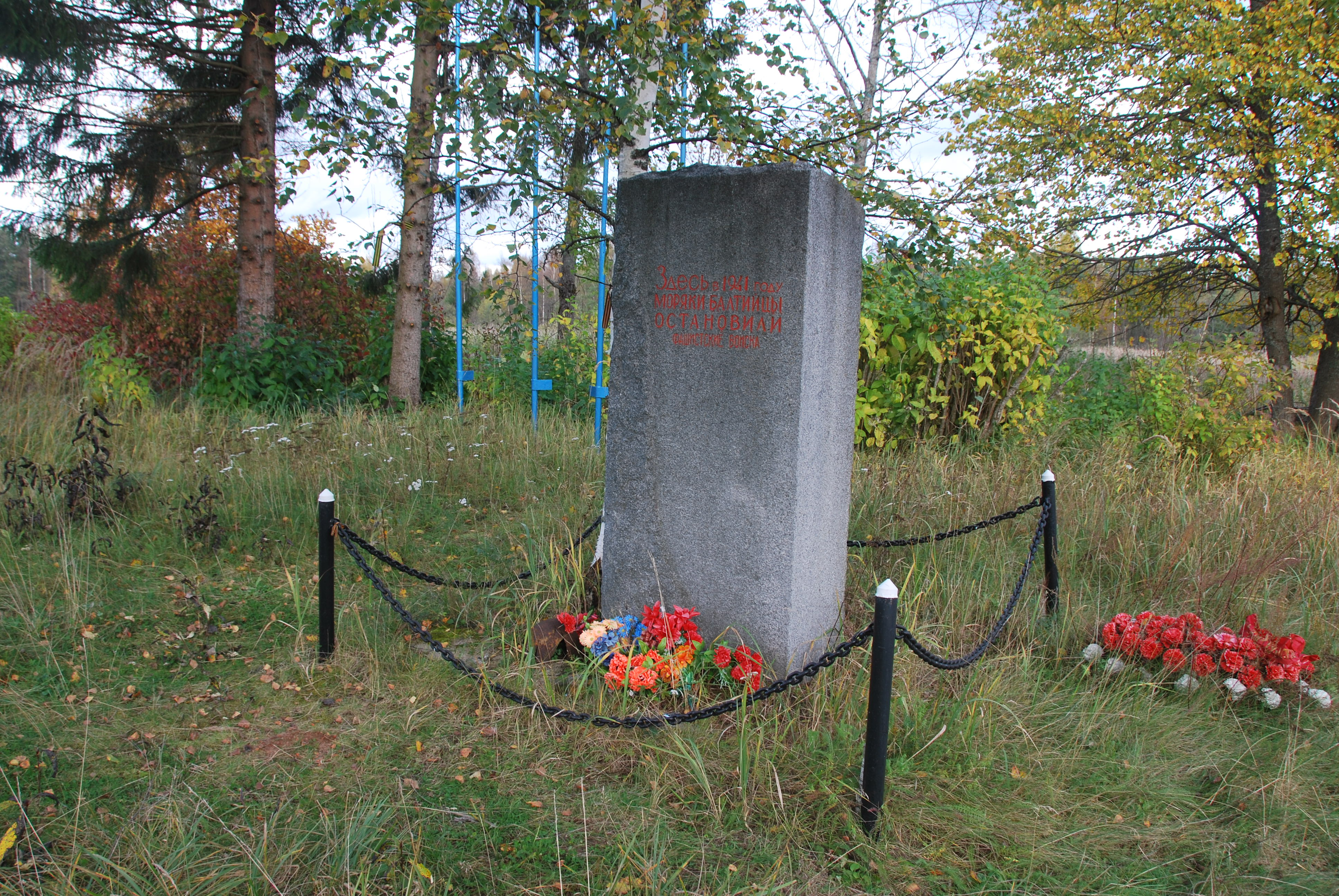 "Dalniy Rubezh" memorial